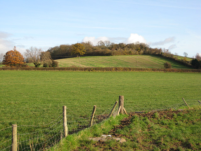 Pasture east of the Moreton road Looking towards the western end of the Sutton Walls hill fort.